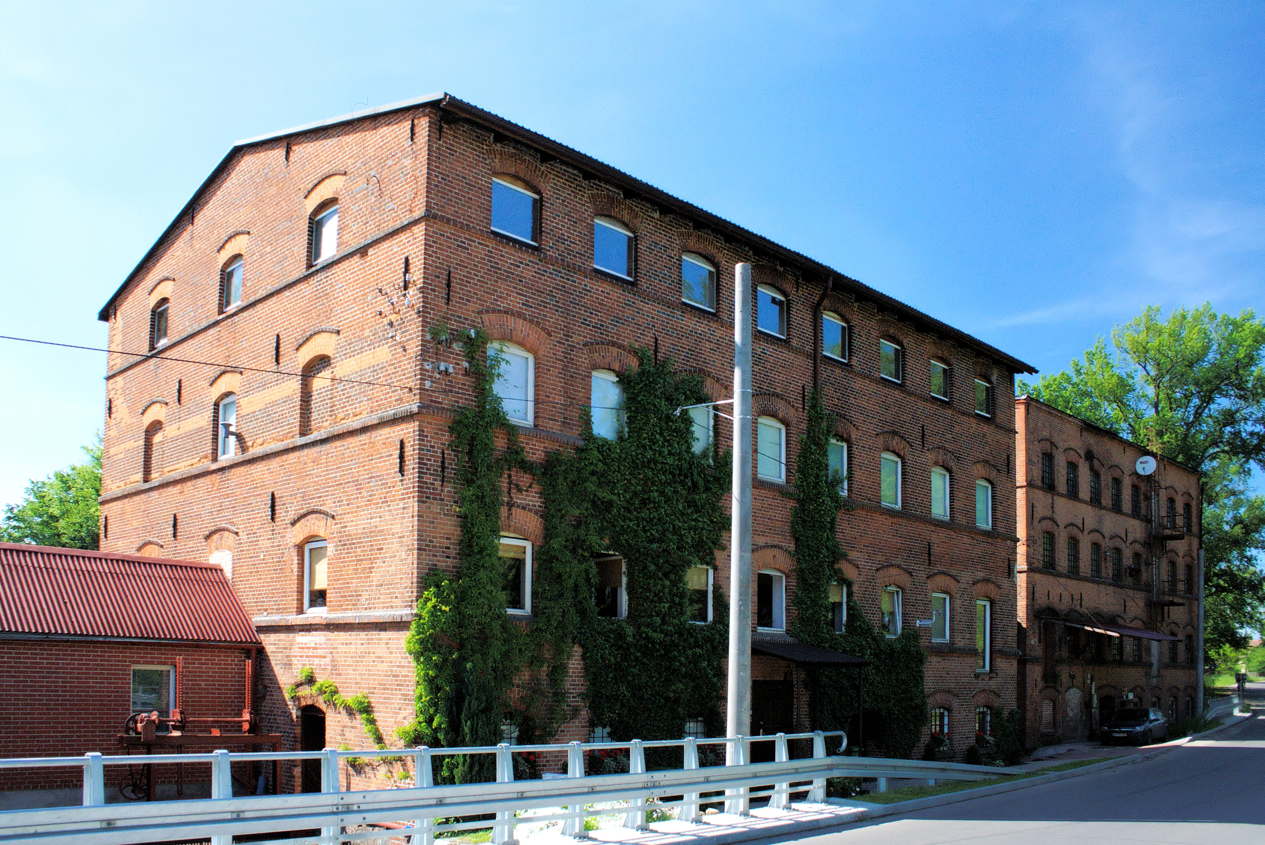 The water mill complex in Dargomysl built around year 1914 - manufacturing and warehouse buildings.